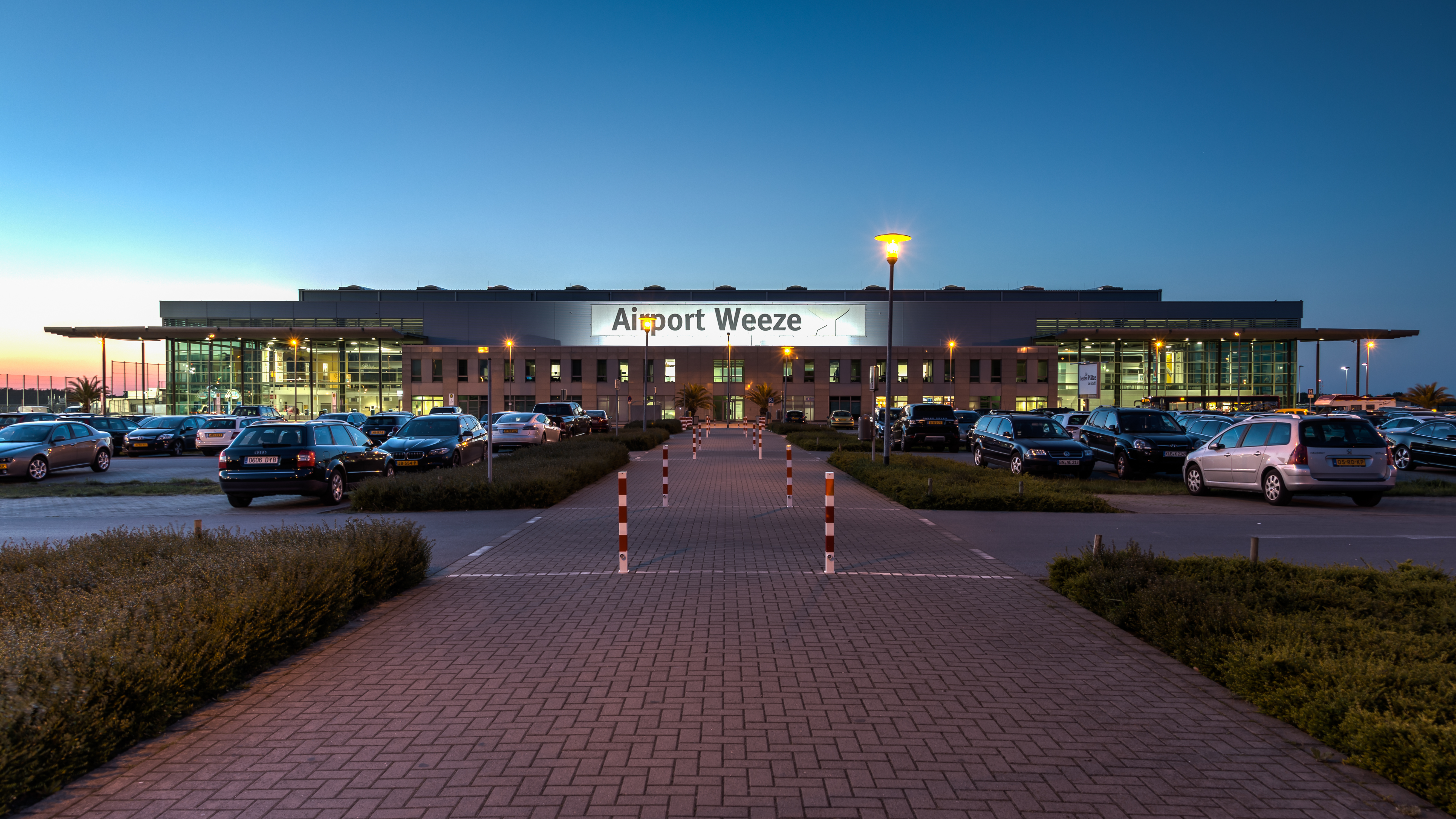 Terminal building of the airport, Weeze, North Rhine-Westphalia, Germany.